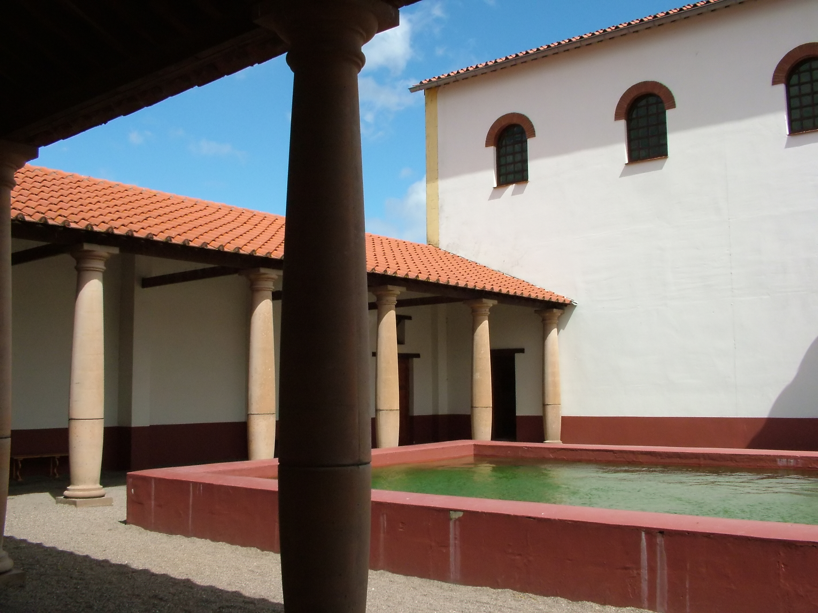 Archeologisch Themapark Archeon (Alphen aan den Rijn), binnenhof Romeins badhuis / inner court of the Roman thermae